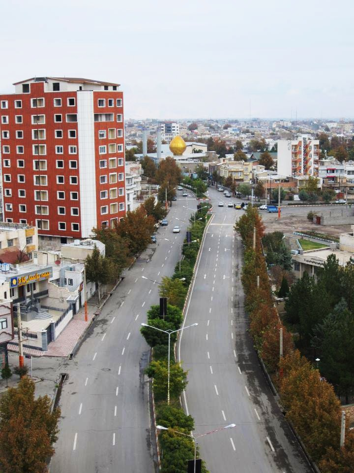 i made it.